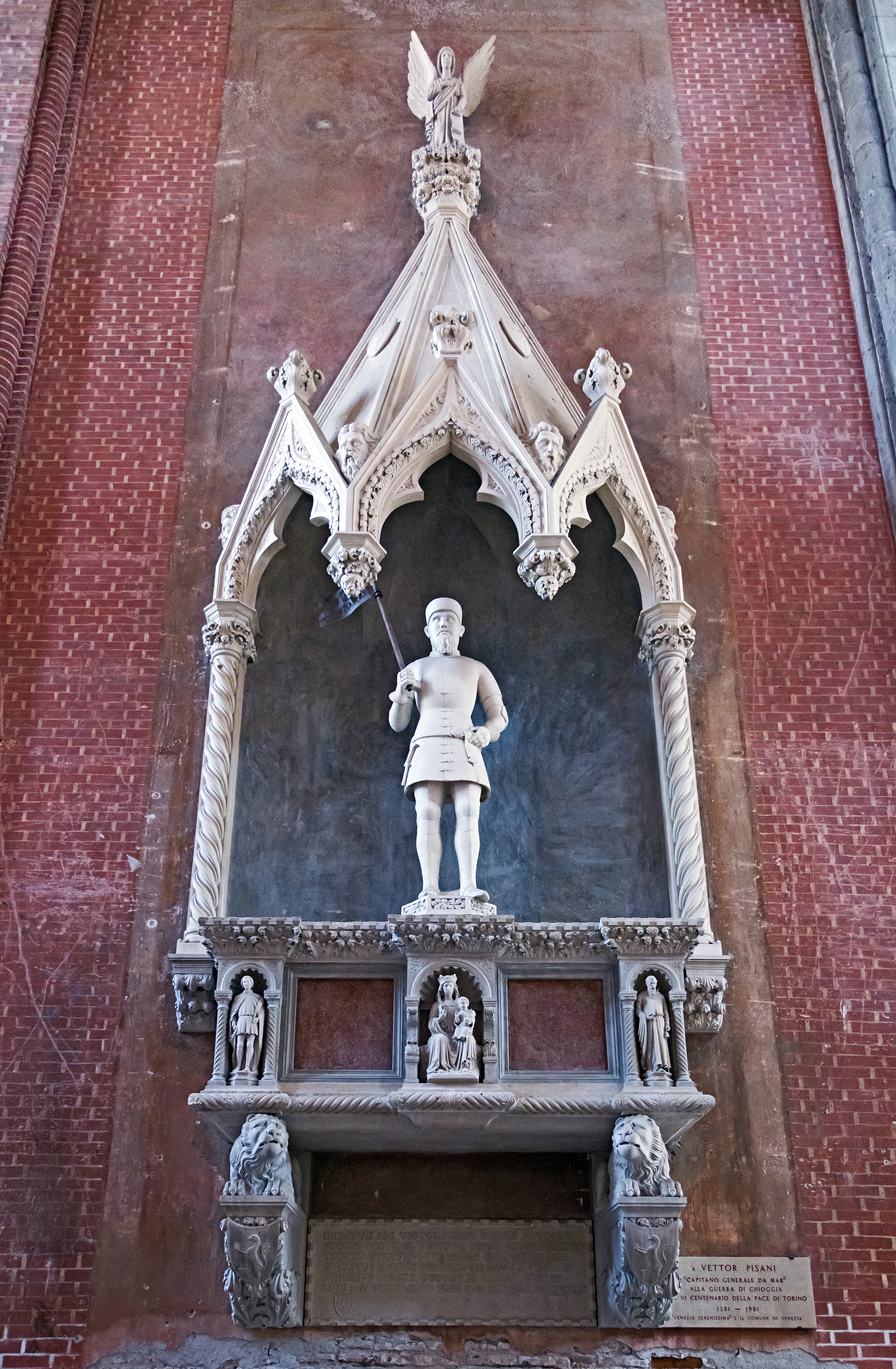 Santi Giovanni e Paolo in Venice. Chapel of Mary Magdalene - Monument of Admiral Vettor Pisani. The monument is a reconstruction dating from 1920; only the statue of the fourteenth century, it is attributed to Bonino da Campione. The original monument was destroyed today in the church of St. Anthony of Castello.